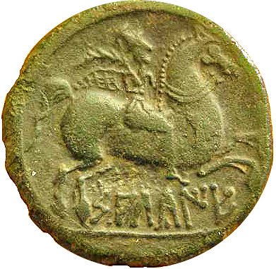 As of Salduie. Iberian (sedetan) coin.